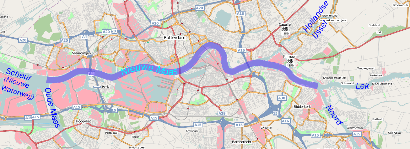 Map of the surroundings of Dutch river Nieuwe Maas (New Meuse). The background map is taken from , I just drew the river names on it.